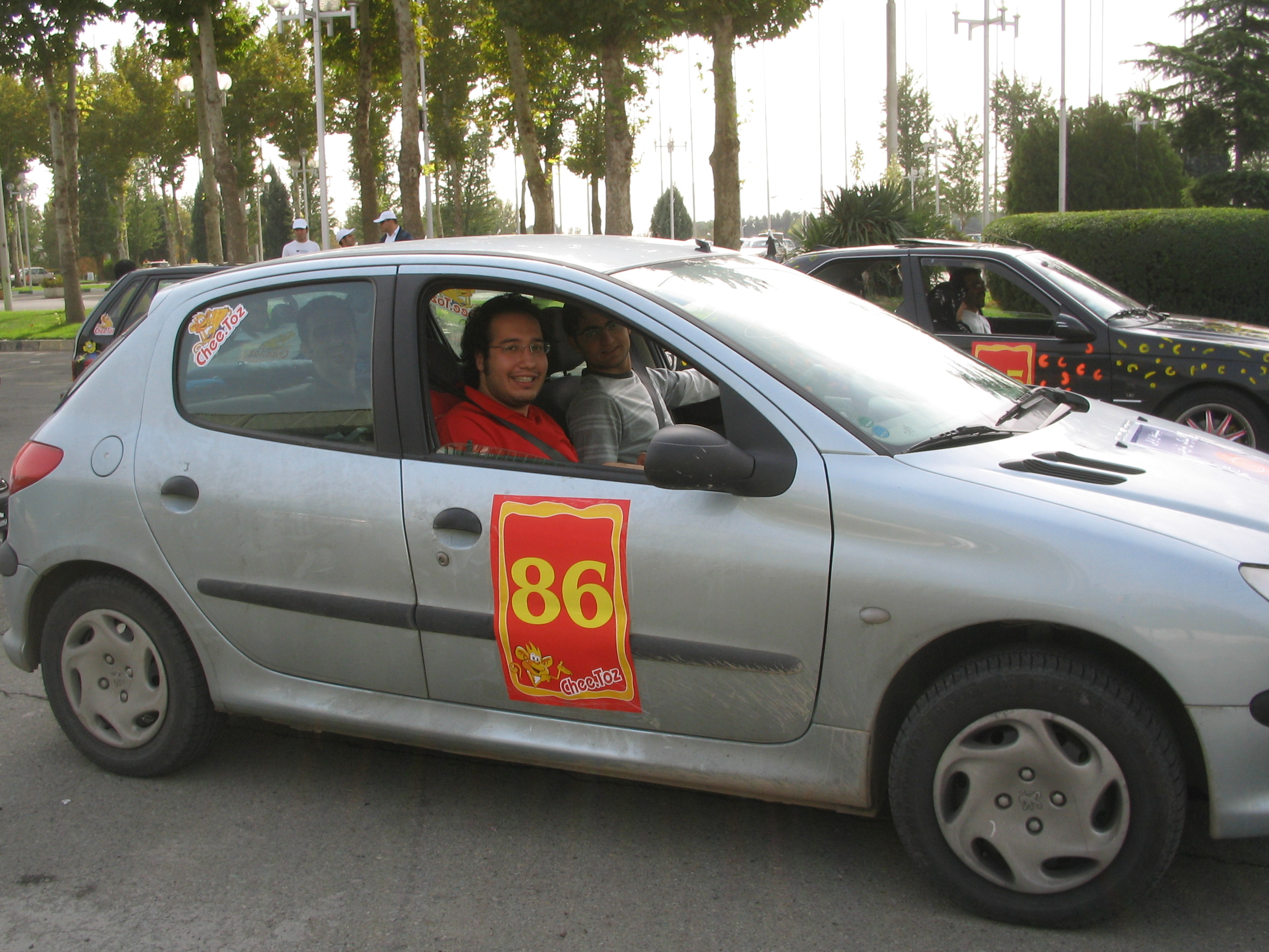 Car #86 at Cheetoz rally, Tehran, Iran